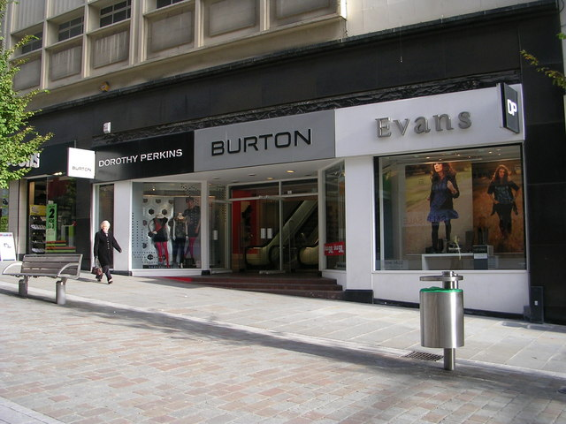 Burton etc - Darley Street